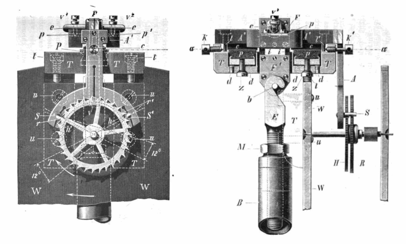 Drawing of Riefler escapement, invented by Sigmund Riefler in 1889, from the catalog of the Columbian Exposition, Chicago, 1893. It was used in the precision astronomical regulator clocks produced by the German firm Clemens Riefler from 1890 to 1965. The escapement's advantage was that it applied impulses to keep the pendulum swinging by flexing the suspension spring (i) that supported the pendulum, rather than applying force directly to the pendulum. The spring is attached to a metal support (A) that rocks back and forth on knife edges (c) resting on agate plates (P). Riefler clocks achieved an accuracy of 10 milliseconds per day, possibly the most accurate all-mechanical clocks ever made. Alterations to image: rotated image 90° CW, rotated R drawing a few degrees to justify, moved R drawing closer to L and aligned drawings vertically, converted to 32 color PNG.